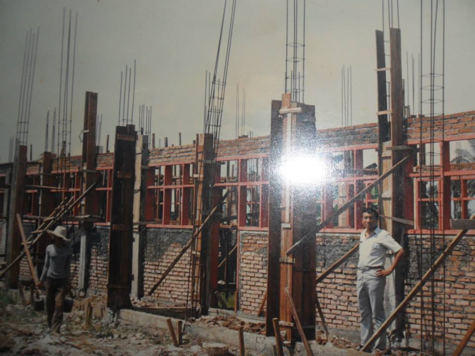 First built